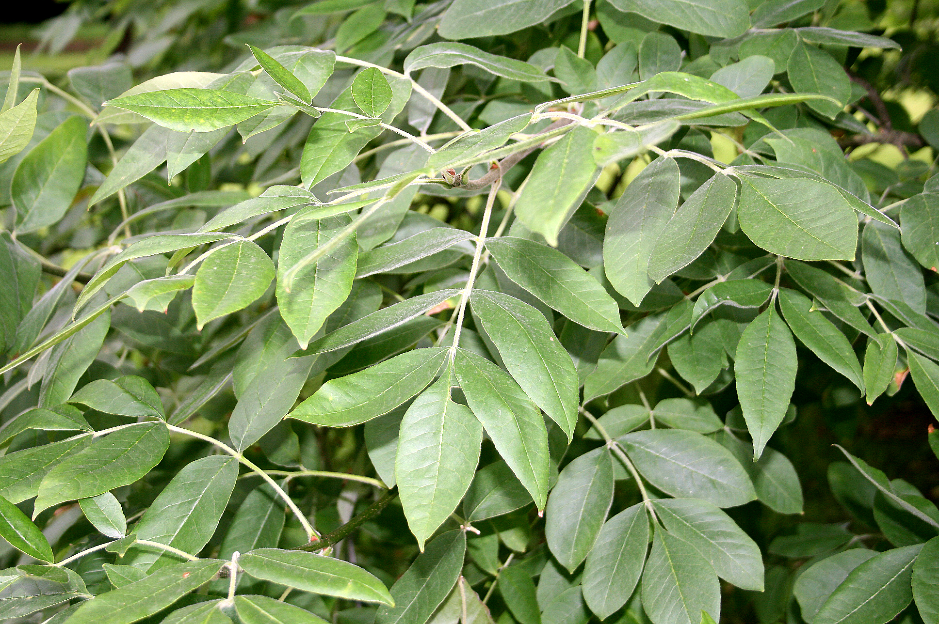 Oregon Ash leaves - Fraxinus latifolia Bent. syn. Fraxinus oregona Nuth. Precice location: National Botanic Garden of Belgium - Meise (Belgium). Walon: Fouyes do Frin.ne di l’Orègon Fraxinus latifolia Bent. syn. Fraxinus oregona Nuth. Place rècta: Jardin botanike national di Bèljike - Meise (Bèljike).